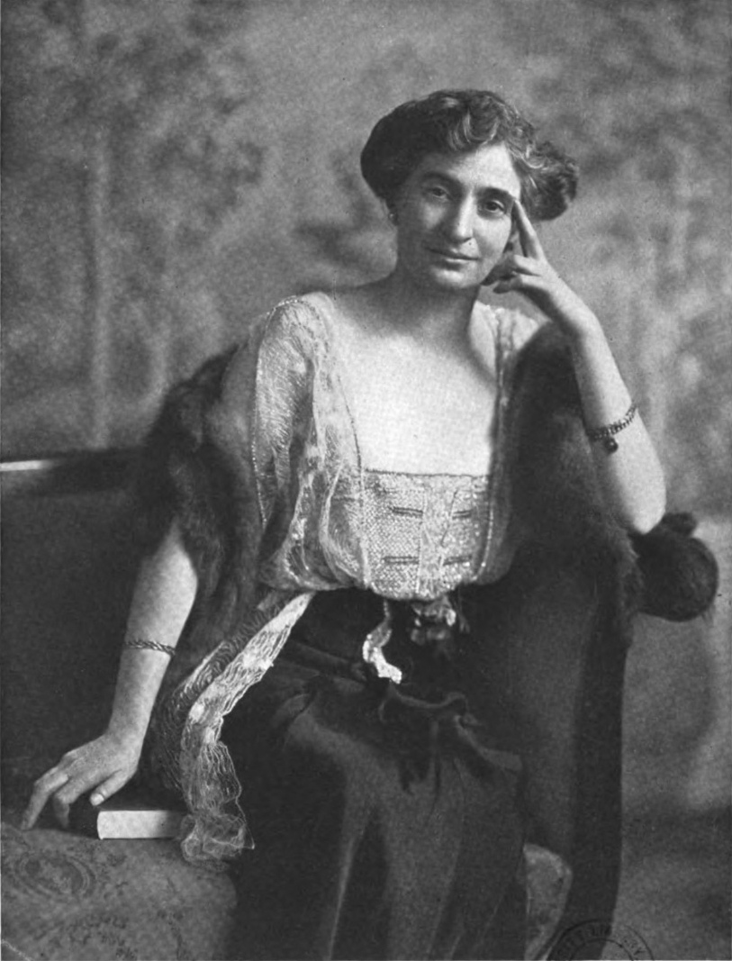 Marie Van Vorst, from a 1915 publication.